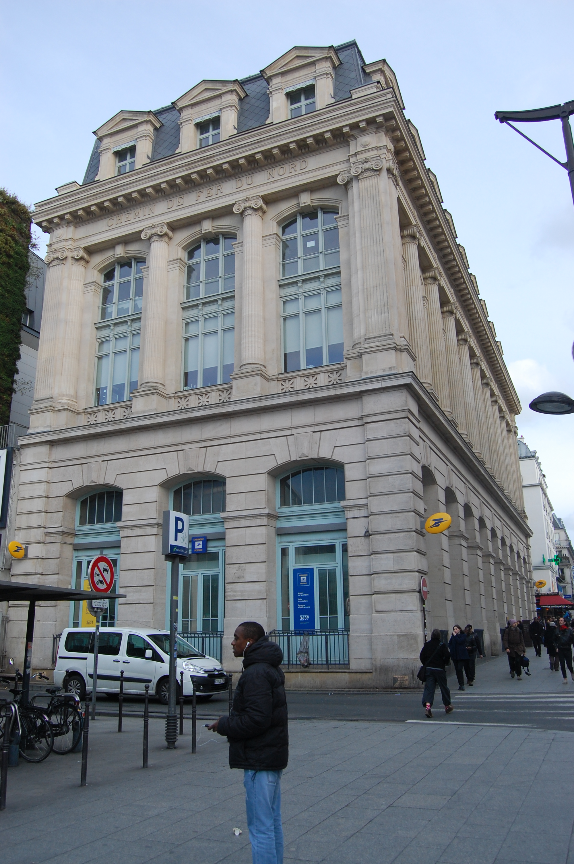 La Banque Postale, Rue de Dunkerque, Paris, France. Former railway station, built around 1900 for suburban services to Saint-Denis and Saint-Ouen, and trains running on the circular Petite Ceinture line.